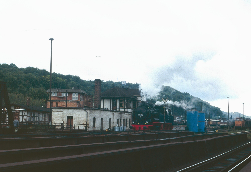 Steam locomotive 91 6580 at goods station in Eisenach in Thuringia in Germany.